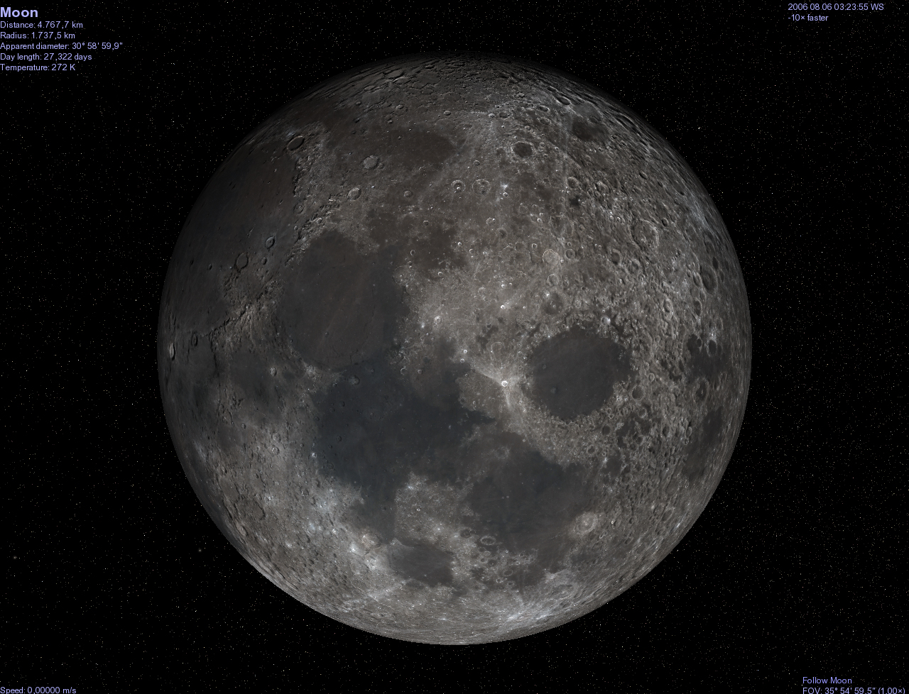 Moon in Celestia